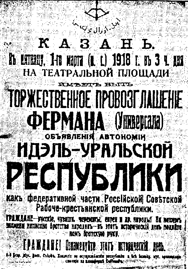 Proclamation of Idel-Ural Republic